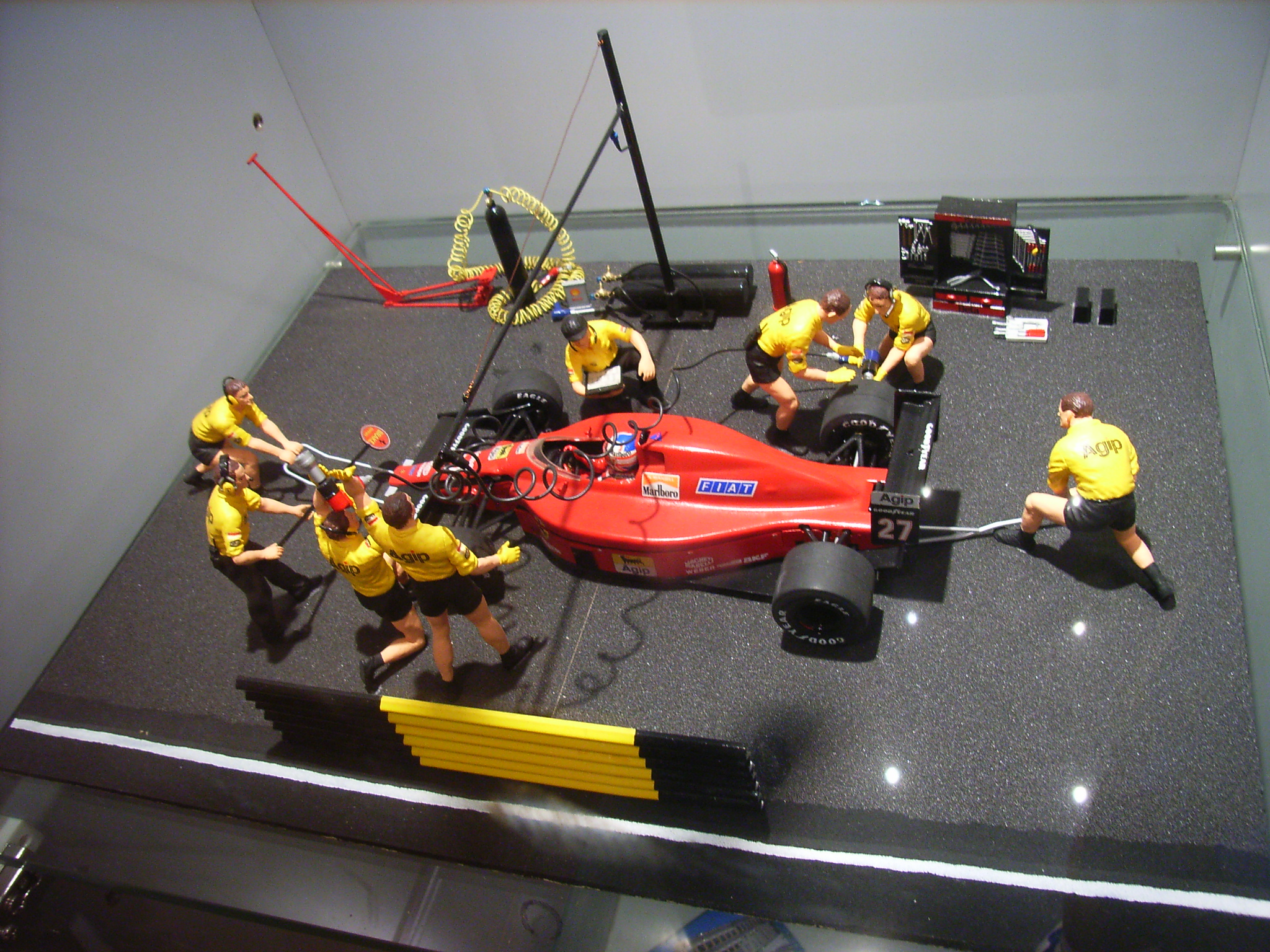 The Grad Prix Museum in Macau 澳門大賽車博物館 在 新口岸區 高美士街